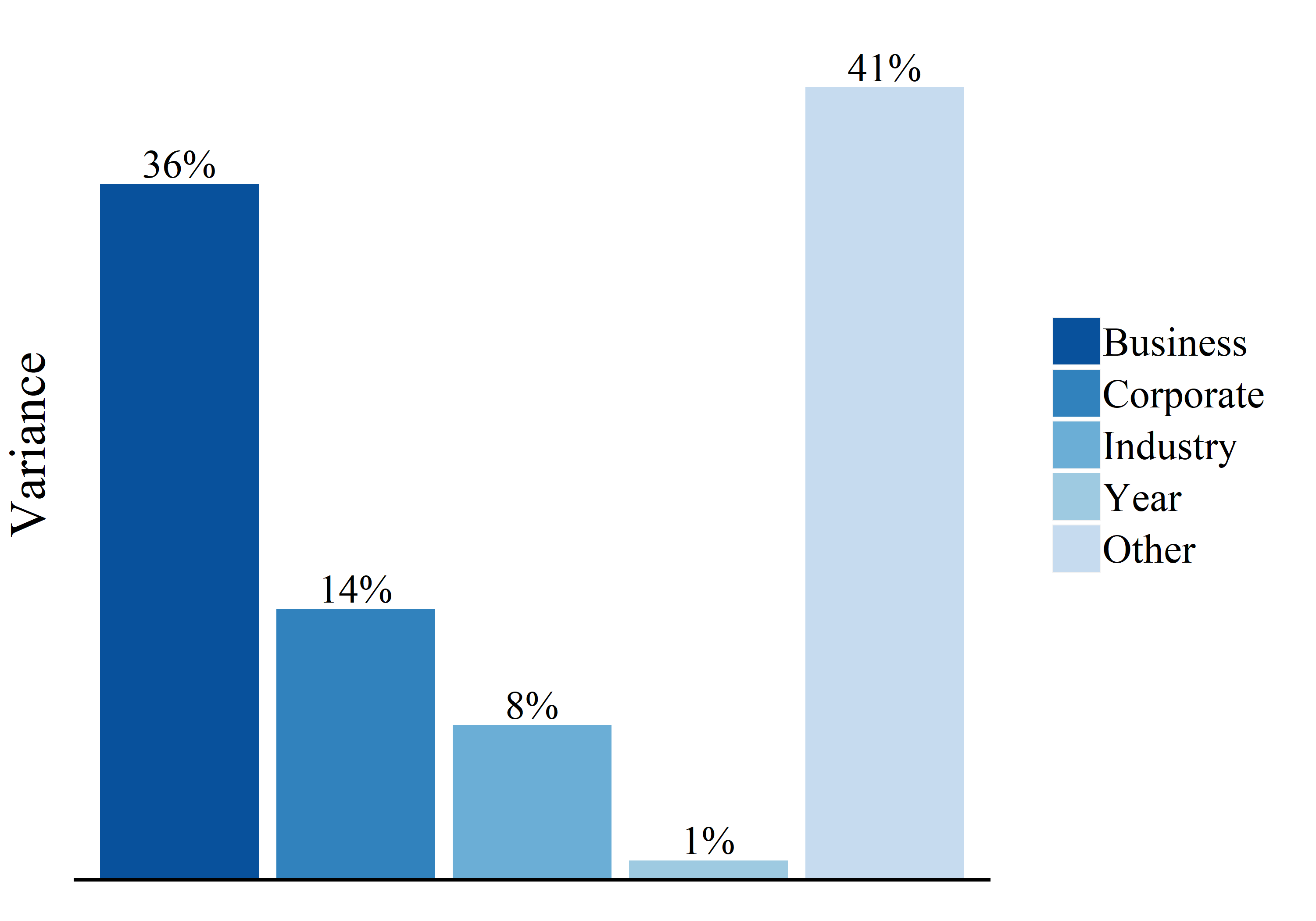 copyright: Amirhossein Zohrehvand